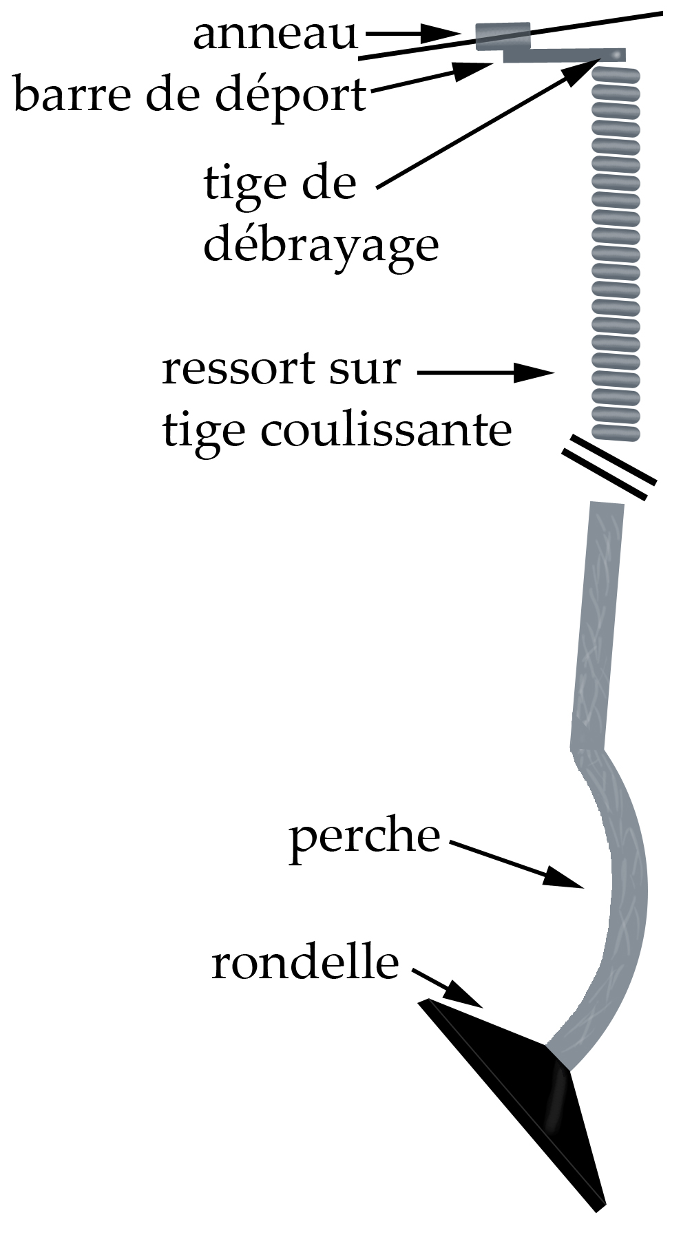 This is a diagram of a skilift pole